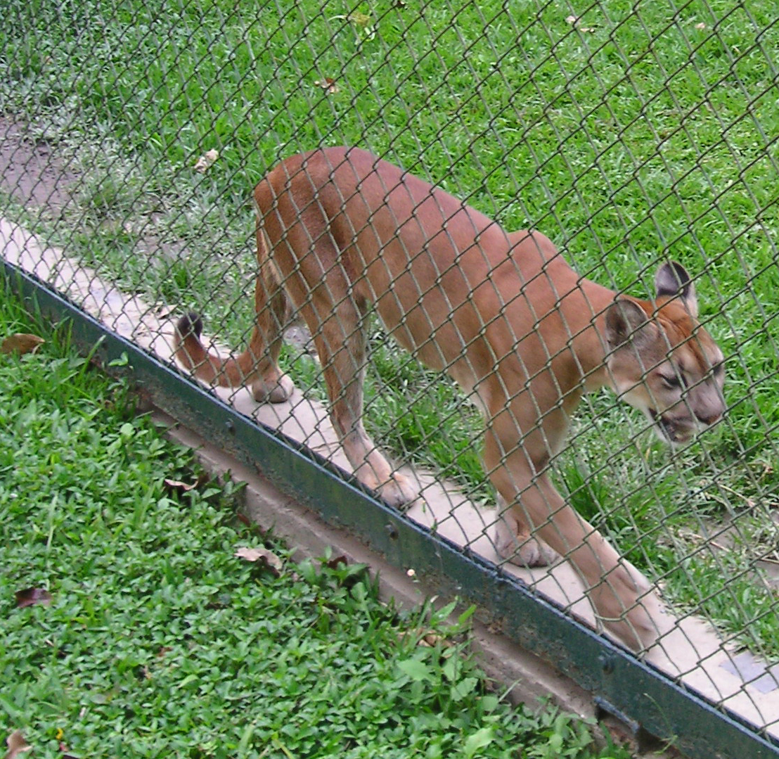 A puma in a zoo in caracas.